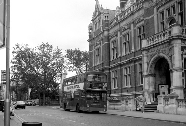 Katharine Street, Croydon A bus on Route 109 has reached its terminal point outside Croydon Town Hall on Katharine Street.